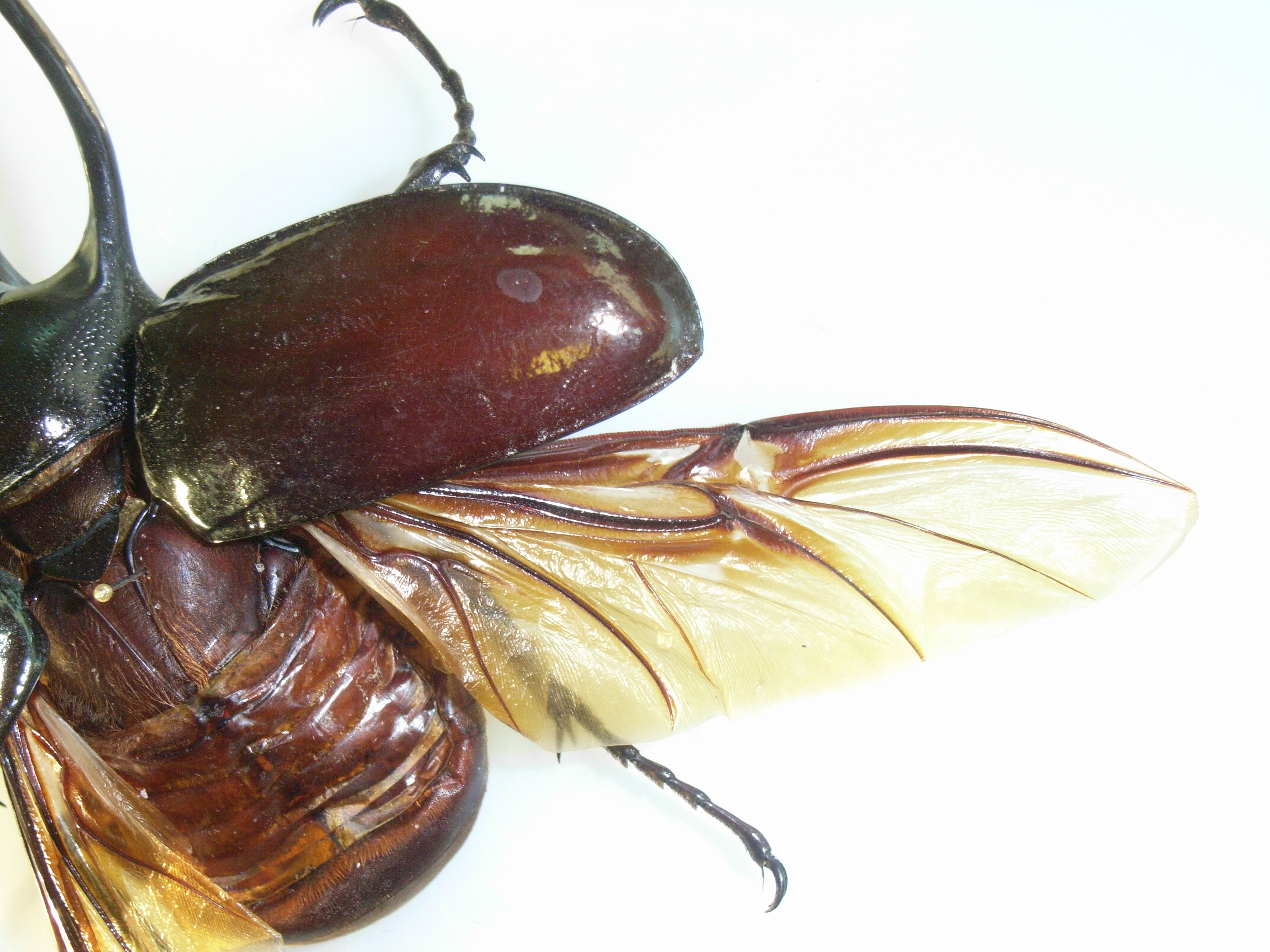 Chalcosoma atlas Ex coll.Felix Stumpe